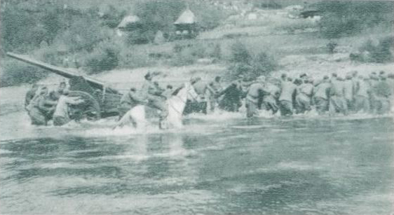 Radomir Vešović (1871–1938) crosses the river Lim at the beginning of the First Balkan War, October 1912